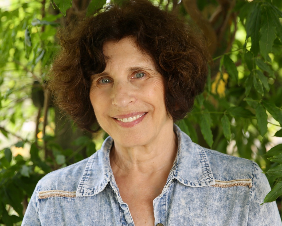 Headshot of Susan Mailer